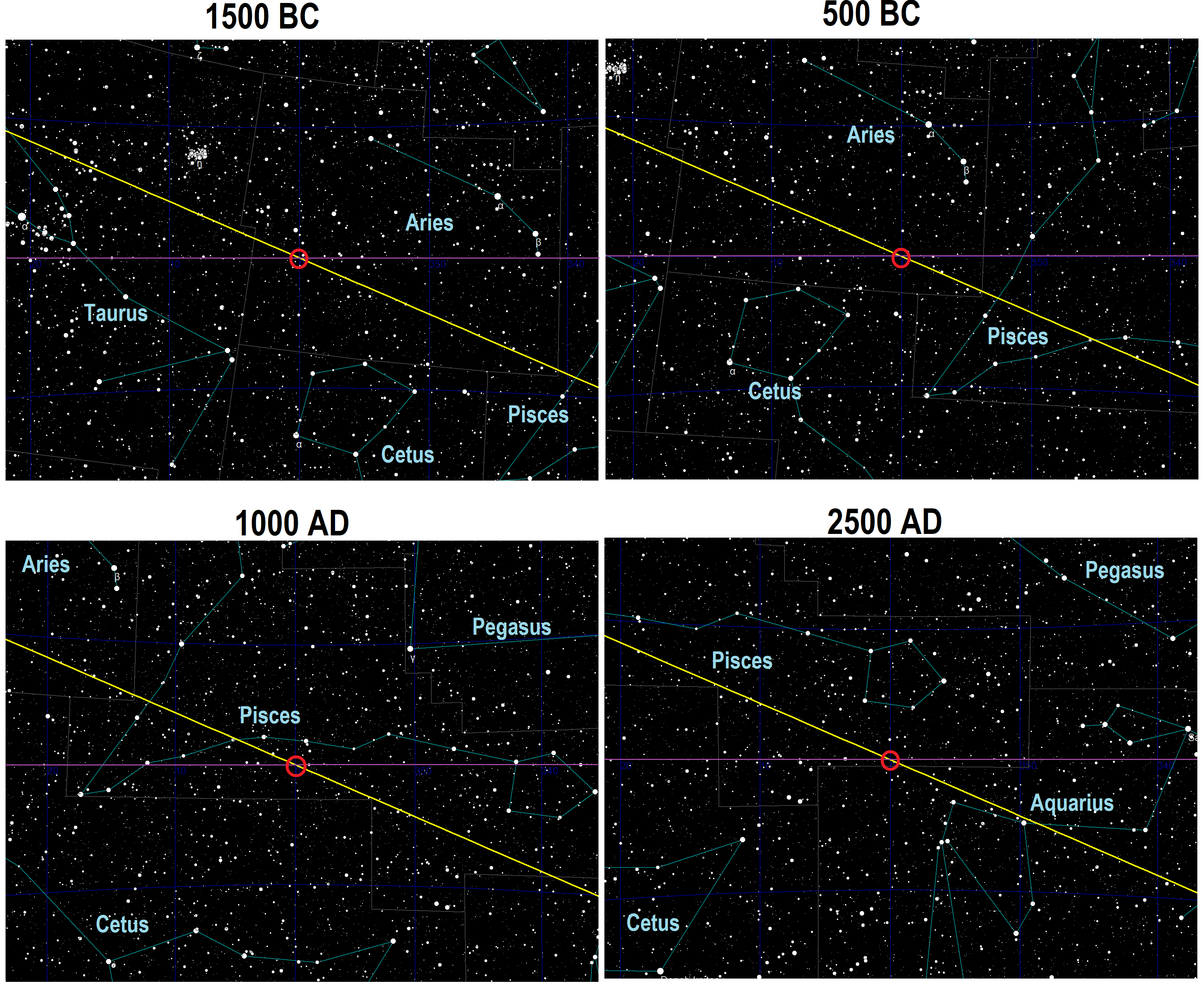 The yellow line is the ecliptic, the path traced by the Sun through the Earth's year. The purple line is a projection of the Earth's equator on to the celestial sphere. The crossing point (red circle) of these two lines is the spring equinox. In 1500 BC it was near the end of the Aries constellation, in 500 BC it was near the beginning of the Aries constellation and in AD 1000 to 2500 it is in Pisces.